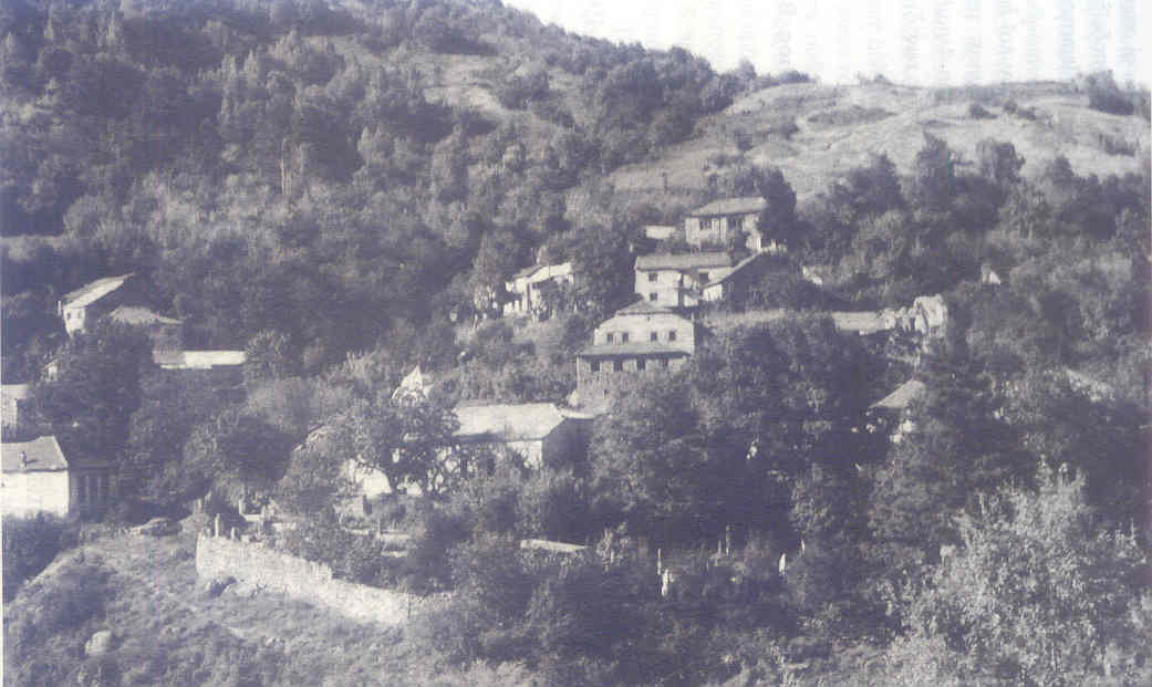 The vilagge Orehovo in FYROM